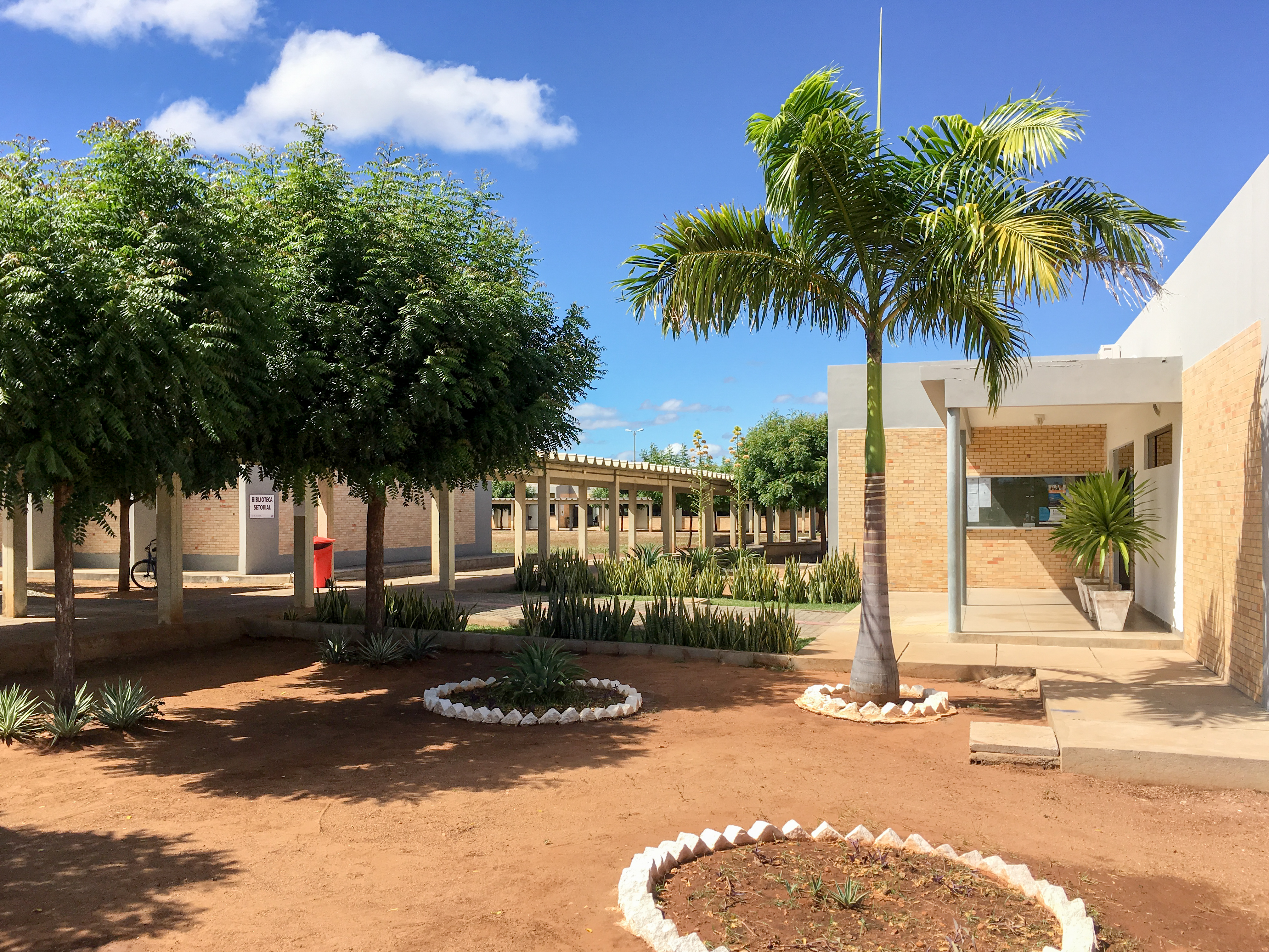 UFCG, Sousa, Paraíba, Brazil